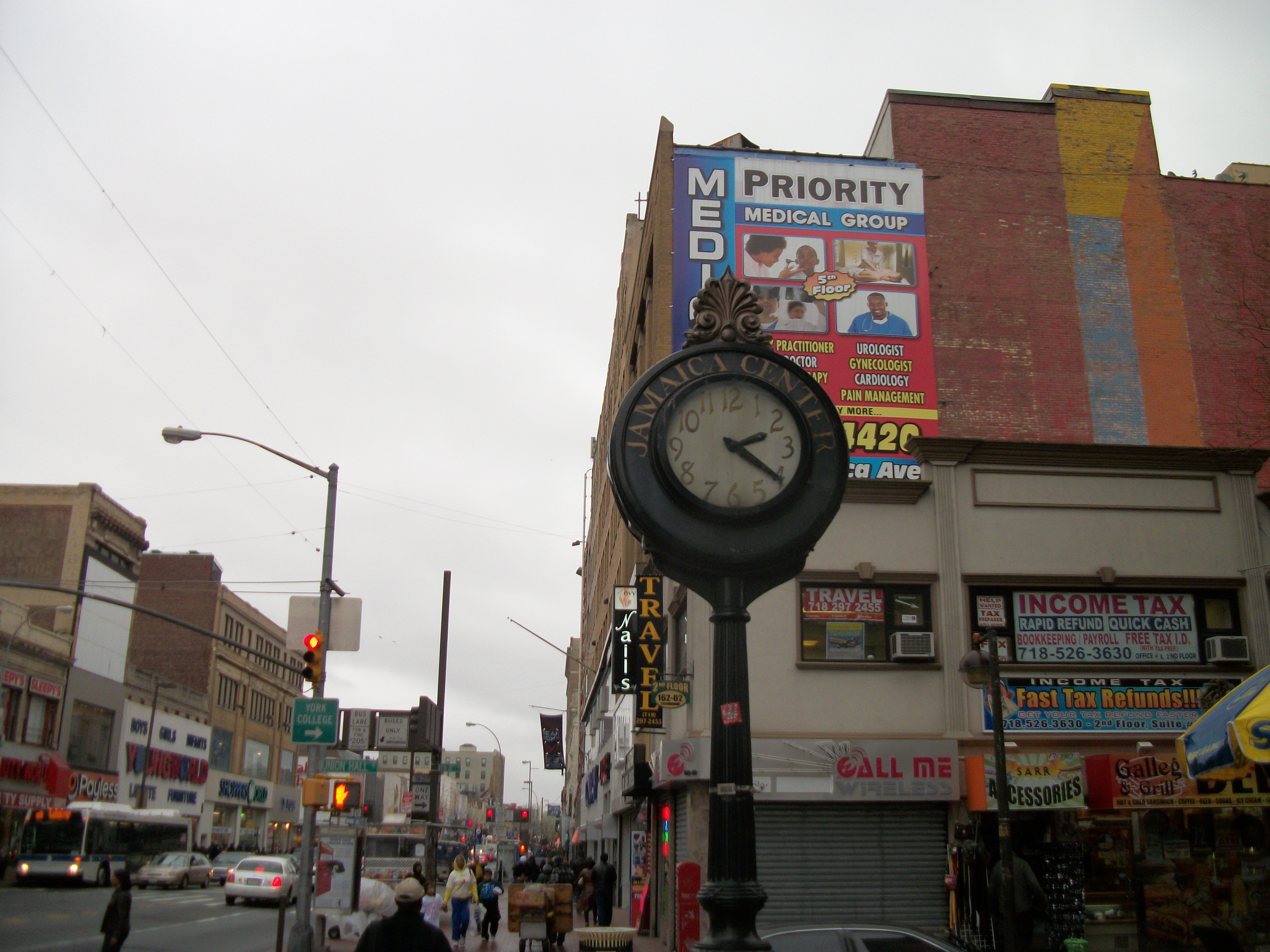 The Sidewalk Clock at 161-11 Jamaica Avenue, New York, NY, actually located on the corner of Jamaica Avenue and Union Hall Street in Jamaica, Queens, New York City.